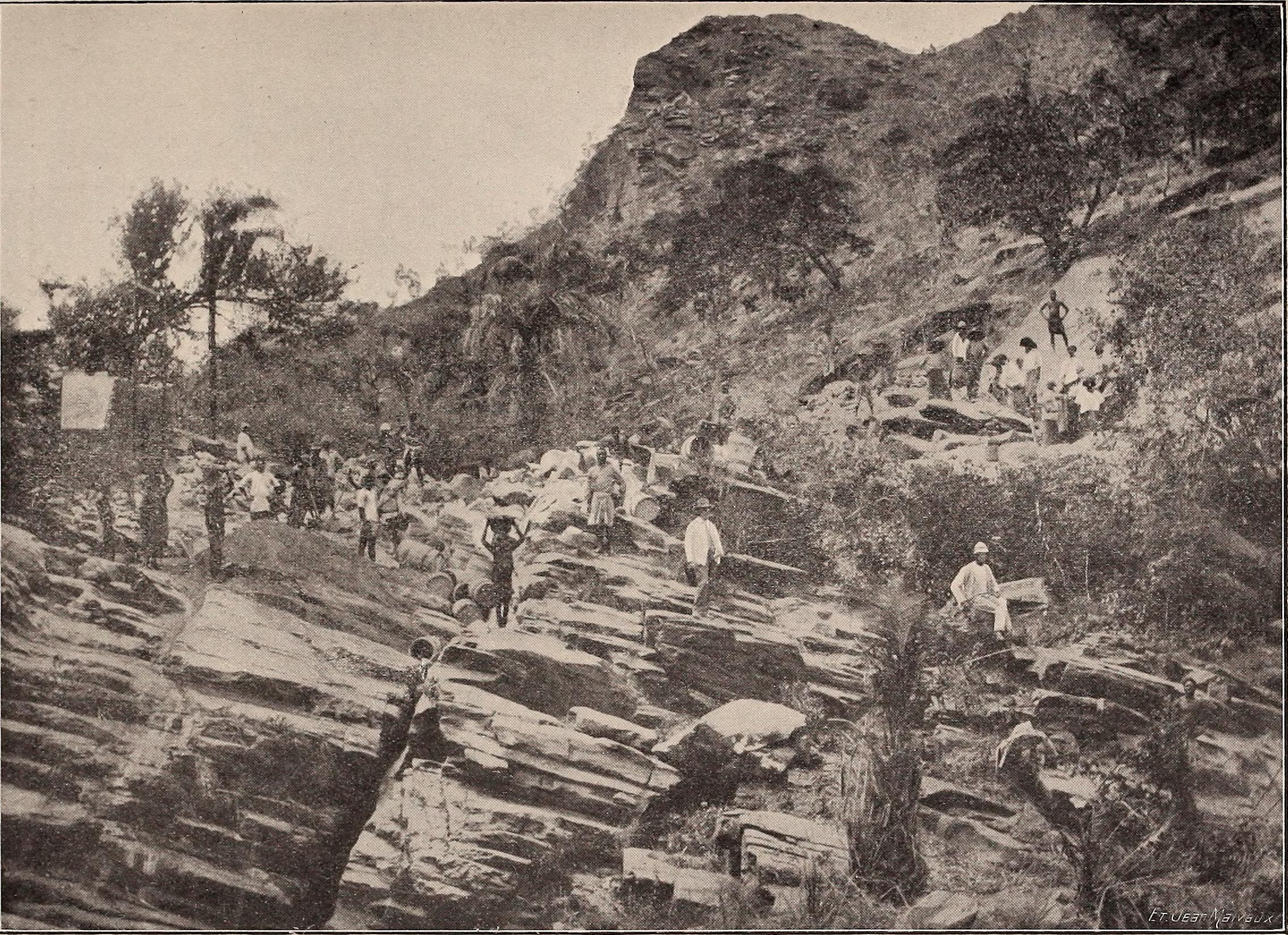 Title: Le chemin de fer du Congo (Matadi-Stanley-Pool) Year: 1907 (1900s) Authors: Goffin, Louis Subjects: Railroads Publisher: Bruxelles, M. Weissenbruch Text Appearing Before Image: o ao O -5 ao bcni Scr Text Appearing After Image: opri HISTORIQUE DE LA CONSTRUCTION 43 les roches amphiboliques vertes déjà rencontrées ou, enfin et leplus souvent, de la latérite présentant soit des filons de quartz enplace, soit des débris nombreux de quartz. La région est aussitourmentée, les ravins dérosion profonds, les flancs raides. Lesterrassements sont donc toujours importants et les ouvrages dartnombreux jusquau kilomètre 24, cest-à-dire jusquau col delhorizon, ainsi nommé parce que, de ce point, loeil pouvait enfinembrasser une certaine étendue de pays. Lavancement sur les 16 premiers kilomètres fut excessivementlent : en juillet 1892, cest-à-dire deux ans après le commence-ment des travaux, la voie venait seulement de franchir le pont dukilomètre 8 ; elle était arrivée au kilomètre g ; le gros des terras-sements était terminé jusquà Palabala. La construction avait été entravée par le manque de travailleurset par la mortalité qui avait décimé le personnel blanc autantque